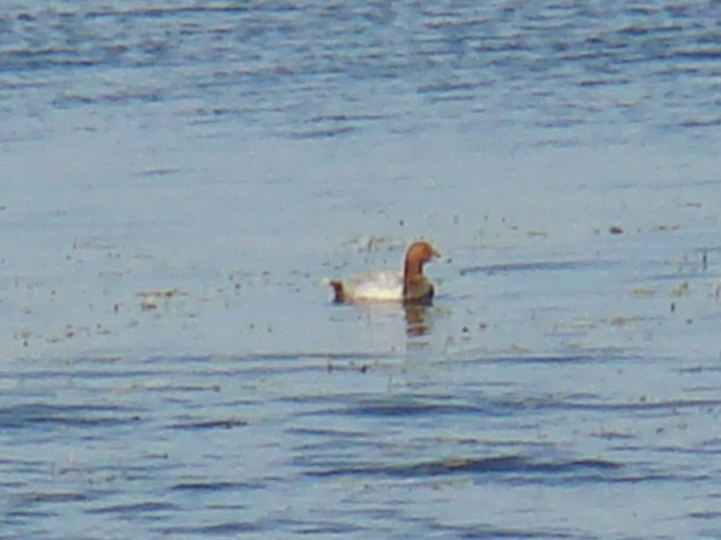 Photo of the Pochard (Aythya ferina) in Novaraistis nature reserve, Lithuania.